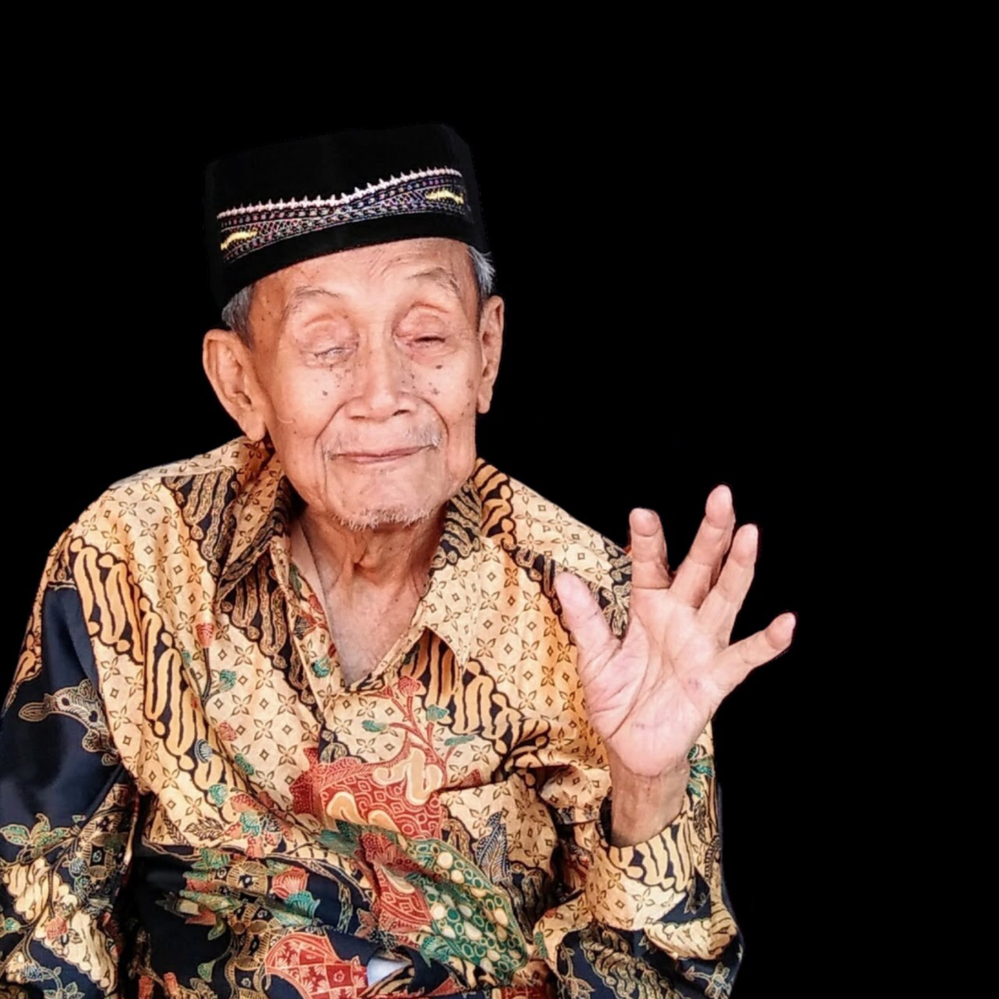 Soekanto S.A.